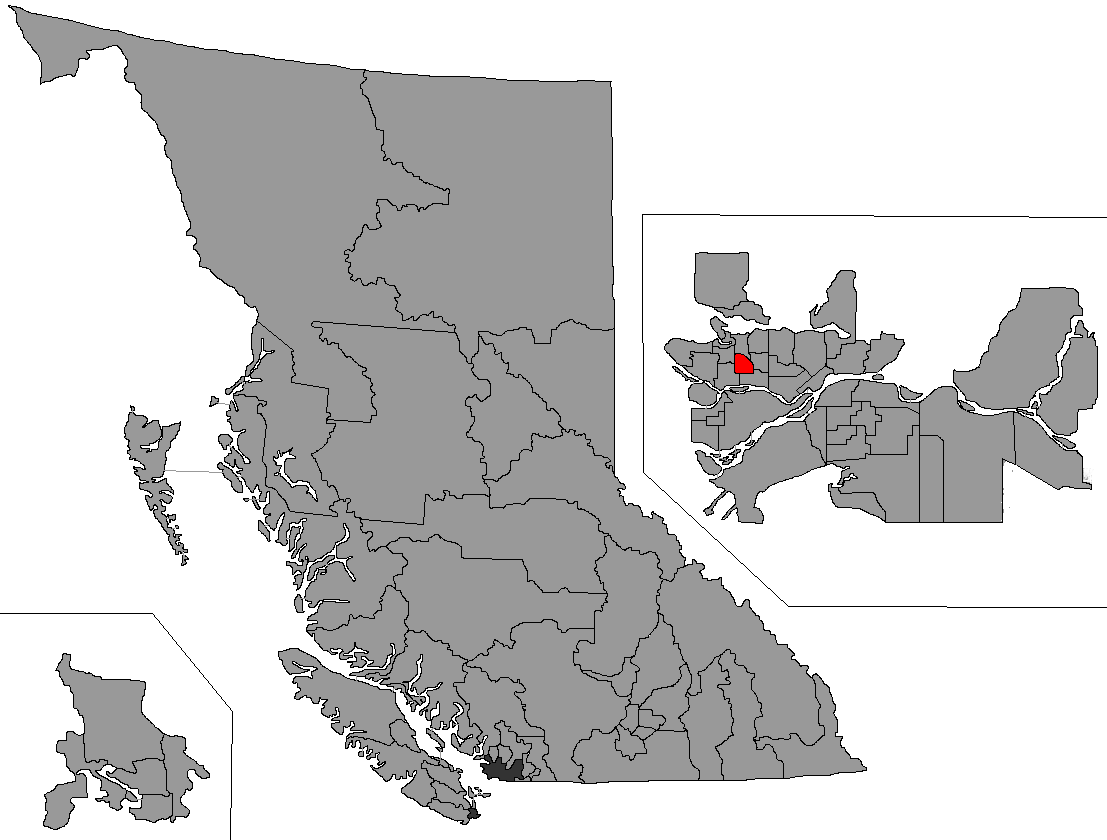 British Columbia 2015 electoral district redistrubution